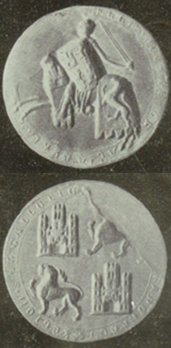 Equestrian seal of Fernando III, King of Castile and León, 1237